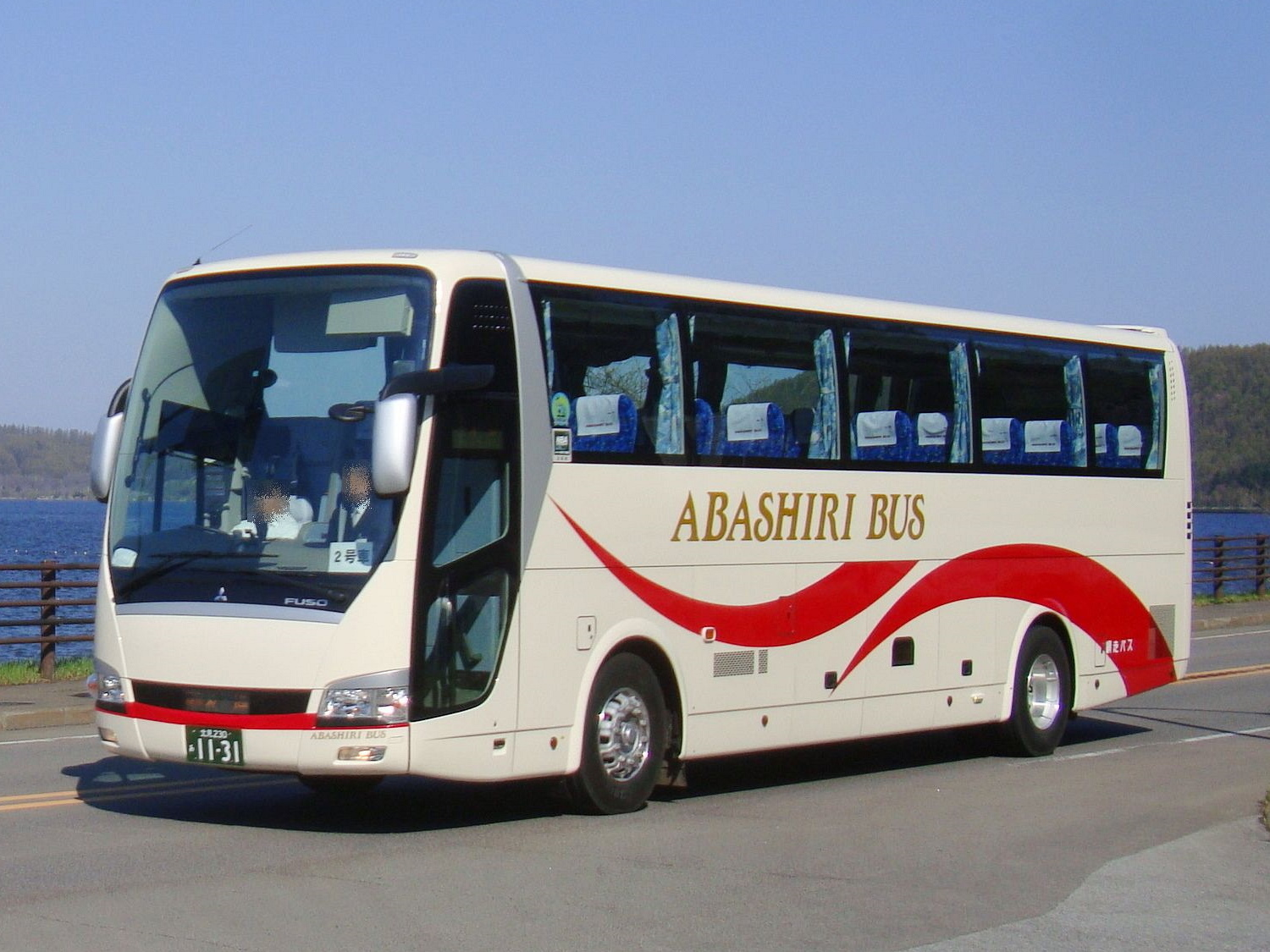 "Dreamint Okhotsk gō" Abashiri to Sapporo